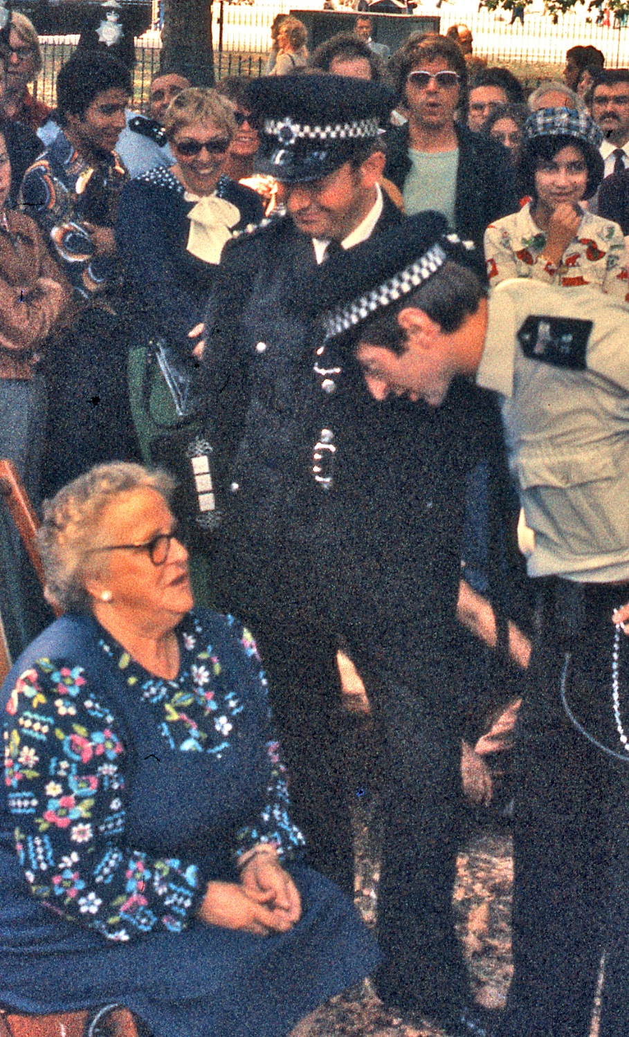 Two officers of the London Metropolitan Police talk with a woman seated in Hyde Park, 1976 Other information Photo by George Garrigues.